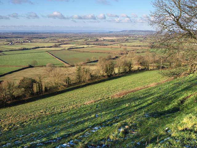 Cotswold scarp at Horton. From the same spot as 1658421. Below runs the tree-lined lane from Horton Hill to Horton Court. The scarp becomes less steep below the lane, and the fields below (in ST7685 and, to the left, in ST7585) continue to slope gently away to the northwest as far as the Little Avon river. Bix and Oakfield Farms, on the extreme left, are also in ST7585. In the distance, about 11 kilometres away, Nibley Knoll juts out into the plain, with Wotton-Under-Edge to its right.